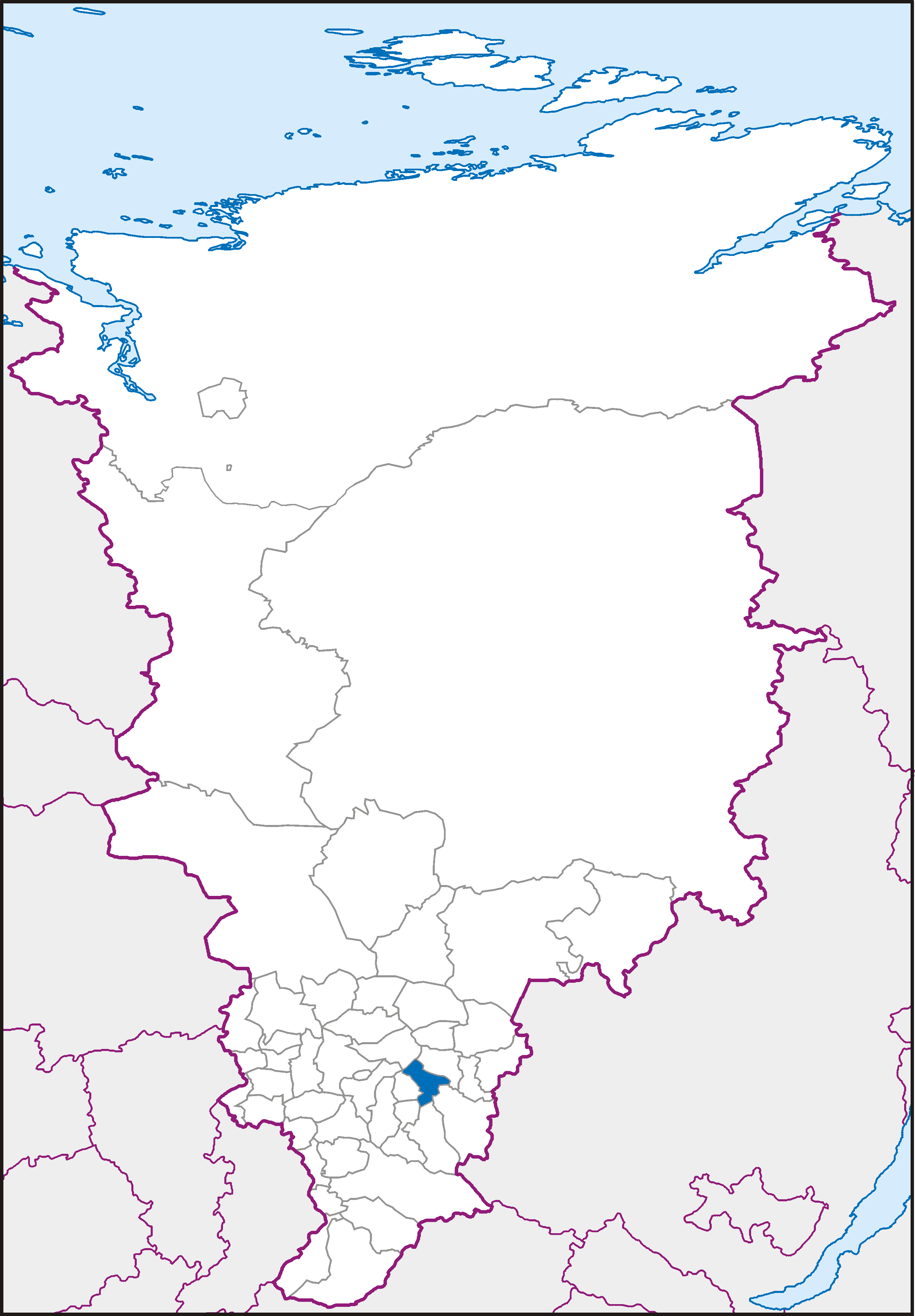 Map of Krasnoyarsk Krai in Albers Equal-Area Conic projection (Central Meridian = 95° E)